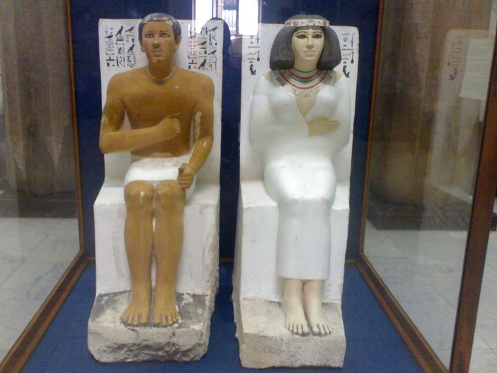 Rahotep and Nofret